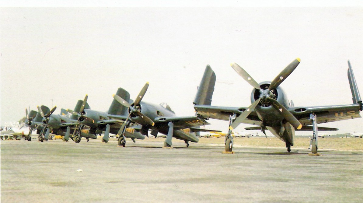 Five U.S. Navy Grumman F8F-1 Bearcat fighters of the U.S. Navy flight demonstration team Blue Angels between 1946 and 1949.